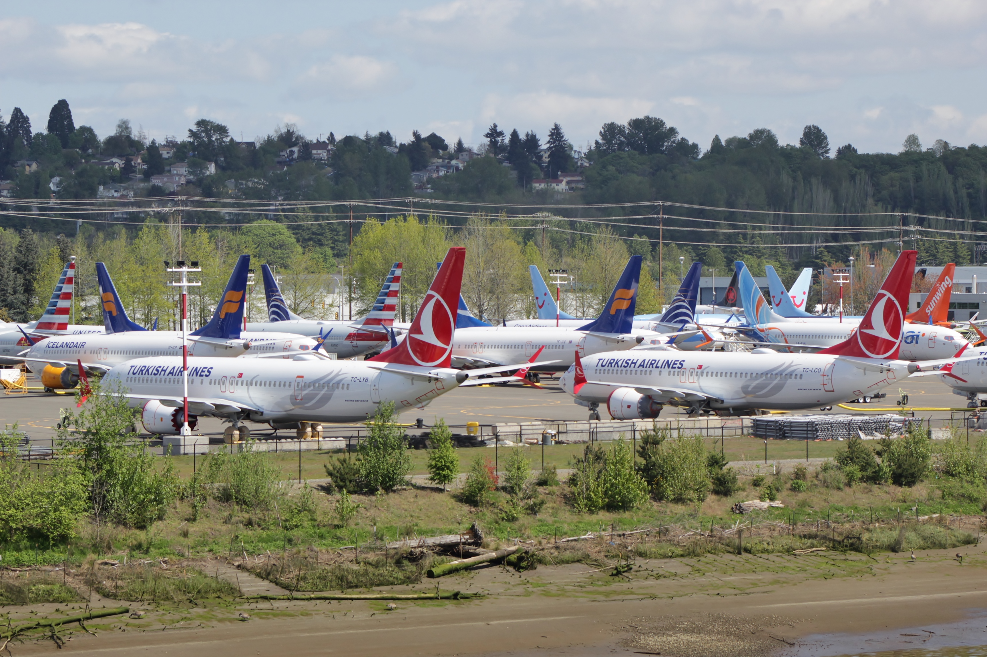 Undelivered Boeing 737 MAX aircraft that were grounded by aviation agencies, seen at parking lot at Boeing Field in Seattle, Washington. This picture was taken from the South Park Bridge.